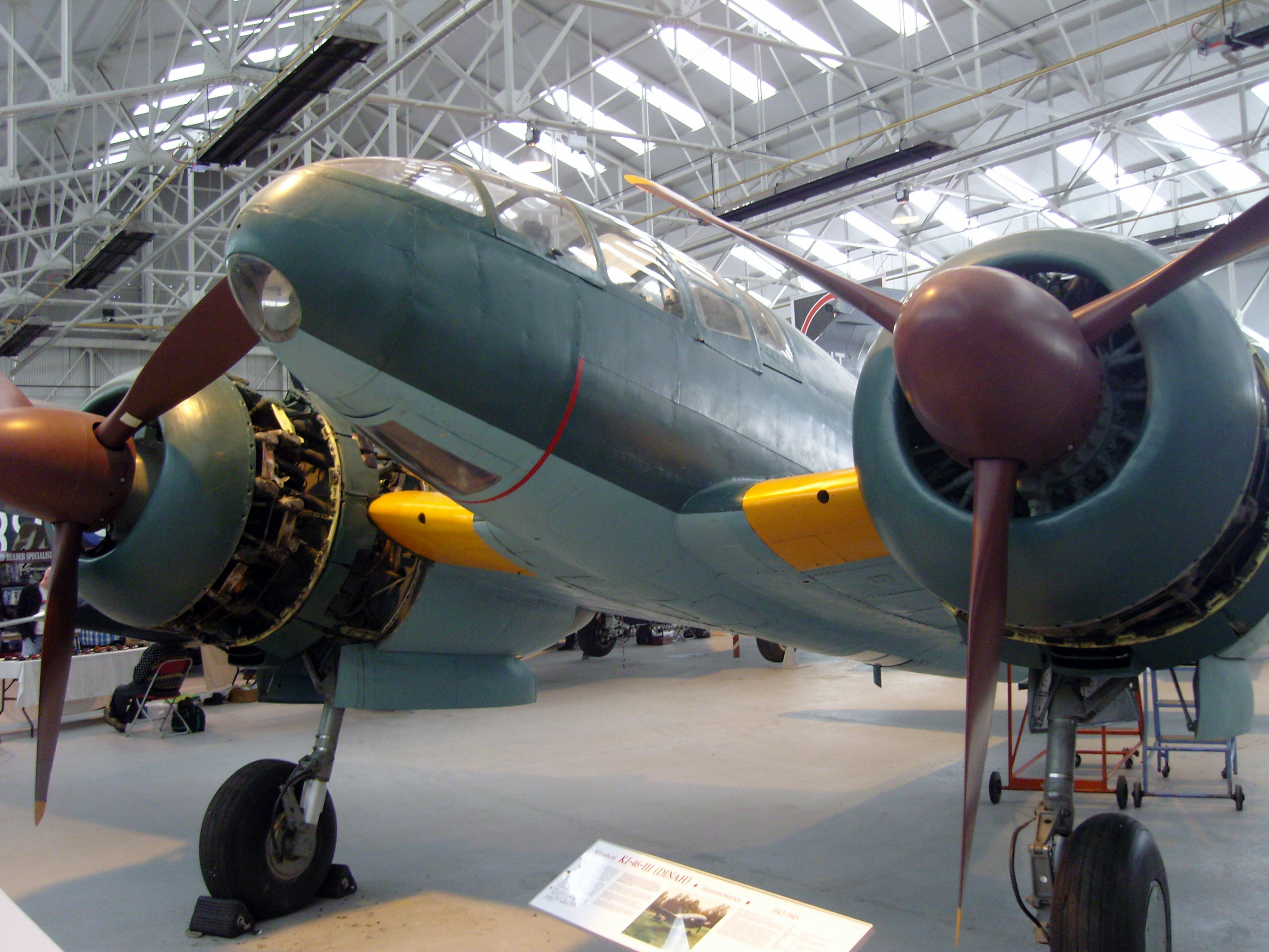 Photoghaphed at the RAF Museum, Cosford Vintage, Veteran and Preserved Aircraft Photo ref SNC13326